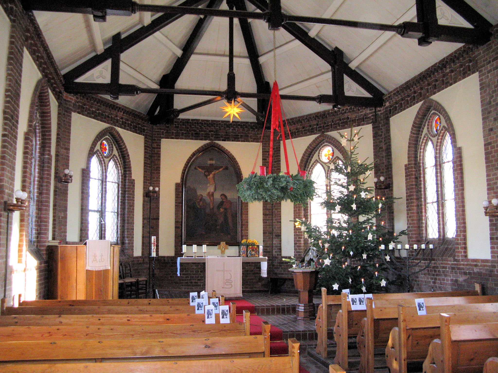 Church in Boltenhagen, Mecklenburg-Vorpommern, Germany